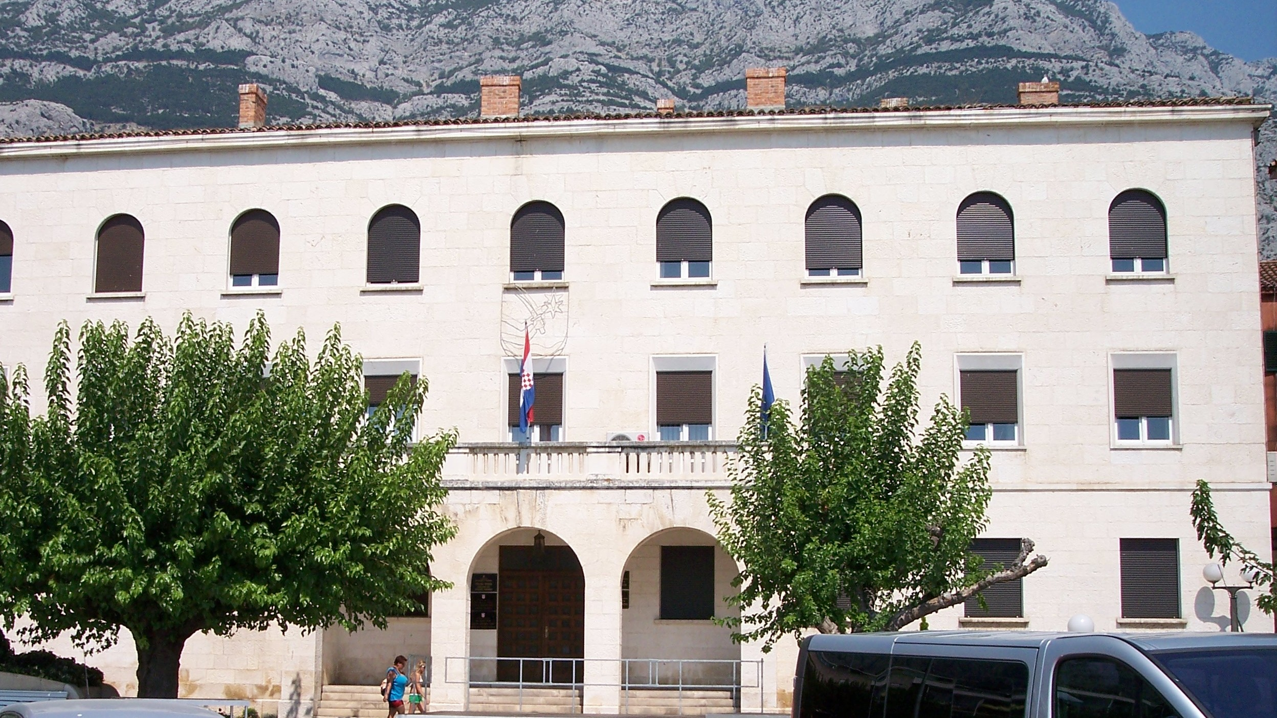 Makarska]